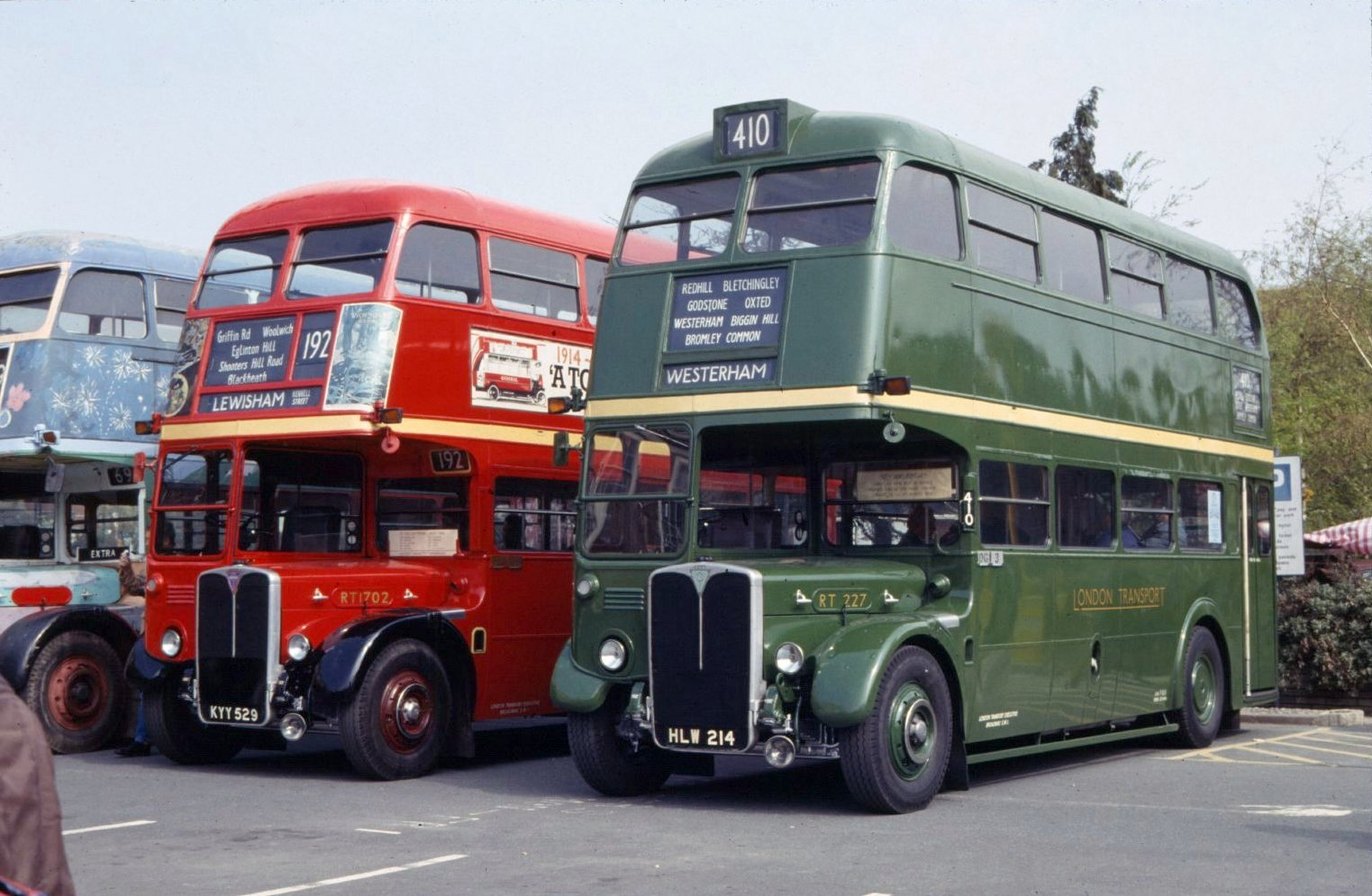 Preserved ex-London Transport buses RT1702 (reg. KYY 529) & RT227 (reg. HLW 214), pictured at the 1991 Barking bus rally. The red colour denotes a former Central area bus, while the green denotes the Country area.